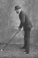 Scottish golf professional Tom Dunn at Meyrick Park in 1894.